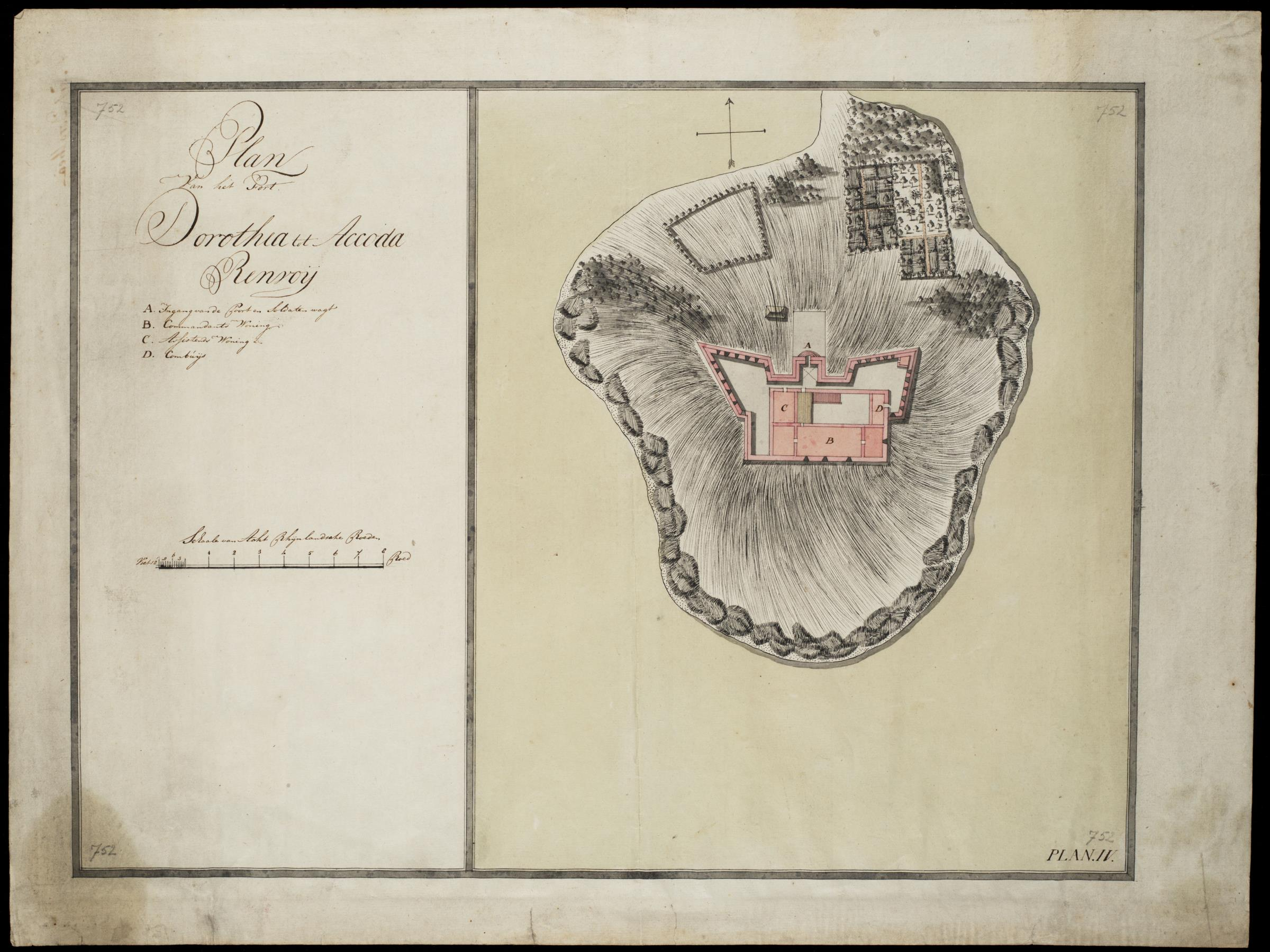 Floor plan of the Dorothea fort at Accoda. Title in the Leupe catalogue (NA): Plan van het Fort Dorothea tot Accoda. Plan van het Fort Dorothea tot Accoda. Notes on reverse: No. 14 Het Fort Dorothea. Register 8, Deel 1, Folio 33, Portefeuille .. [inscribed on a blue label] / 453 [stamped in bold on a small label]. Key: Renvoij / A. Ingang van de Poorten Soldaten wagt / B. Commandants Woning / C. Assistends Woning / D. Combuijs. Bottom right: PLAN.IV.. Inscribed on various places on the chart: 752 [in pencil].